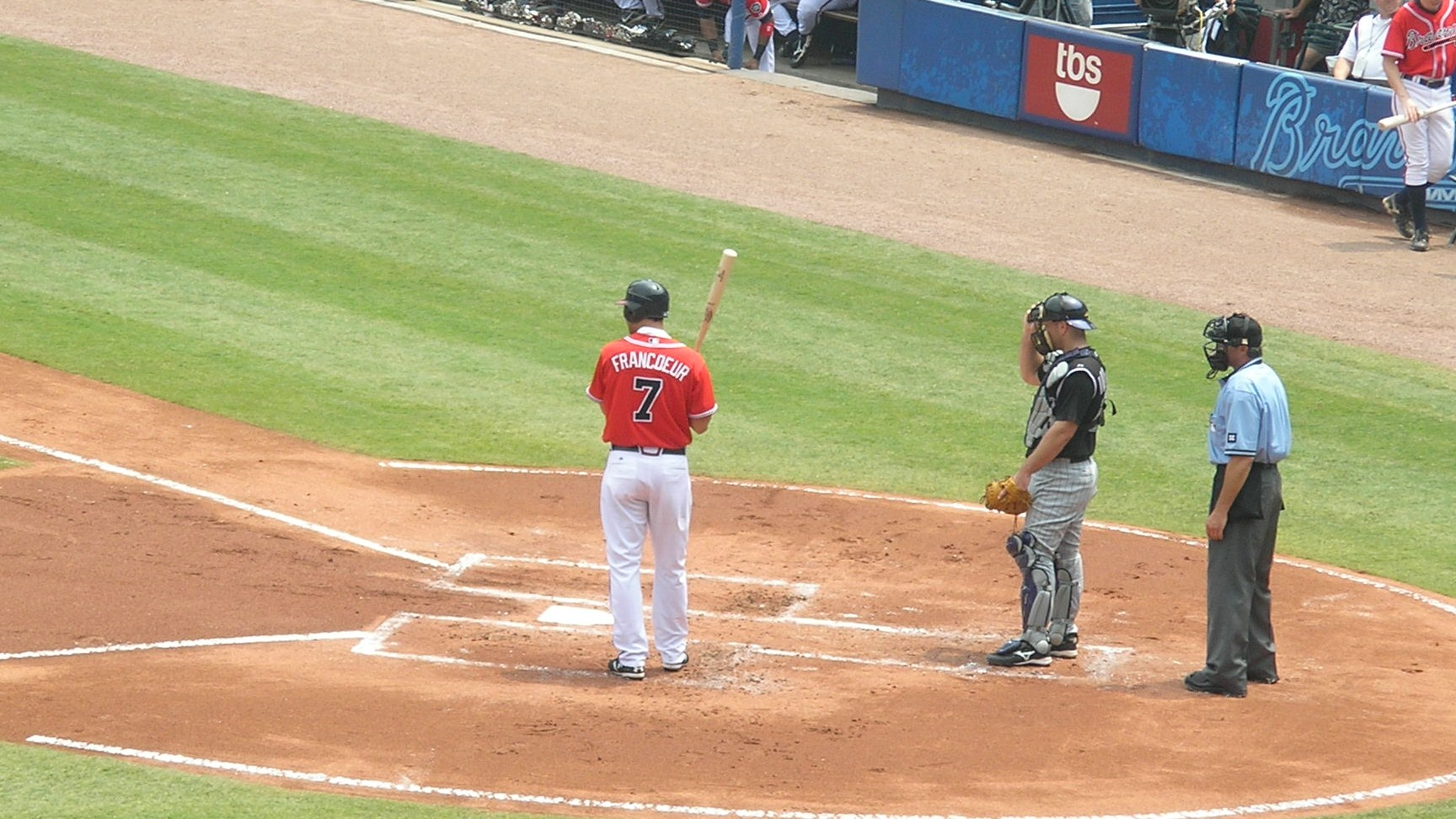 Jeff Francoeur at Turner Field, Sunday August 5th, 2007 against the Colorado Rockies